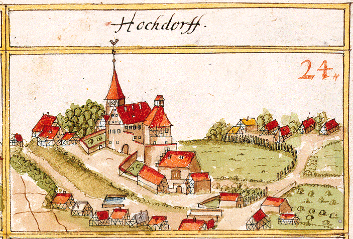 View of Hochdorf am Neckar, Remseck am Neckar, from the forest register books created by Andreas Kieser